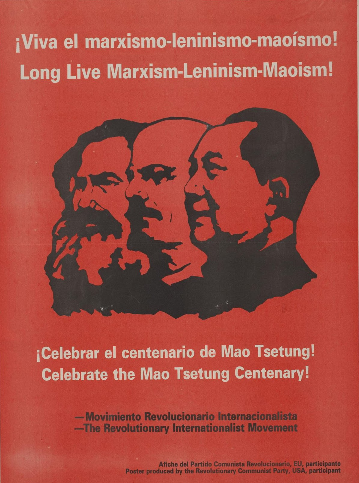 Poster has a red background printed on white paper. At the top is "long live Marxism-Leninism-Maoism!" with a translation above, all in white. At the center is a stylized image of the profiles of the three men. Below the image is "celebrate the Mao Tsetung centenary!" with a translation above, in white. At the bottom is "the Revolutionary Internationalist Movement" with a translation above, in black.